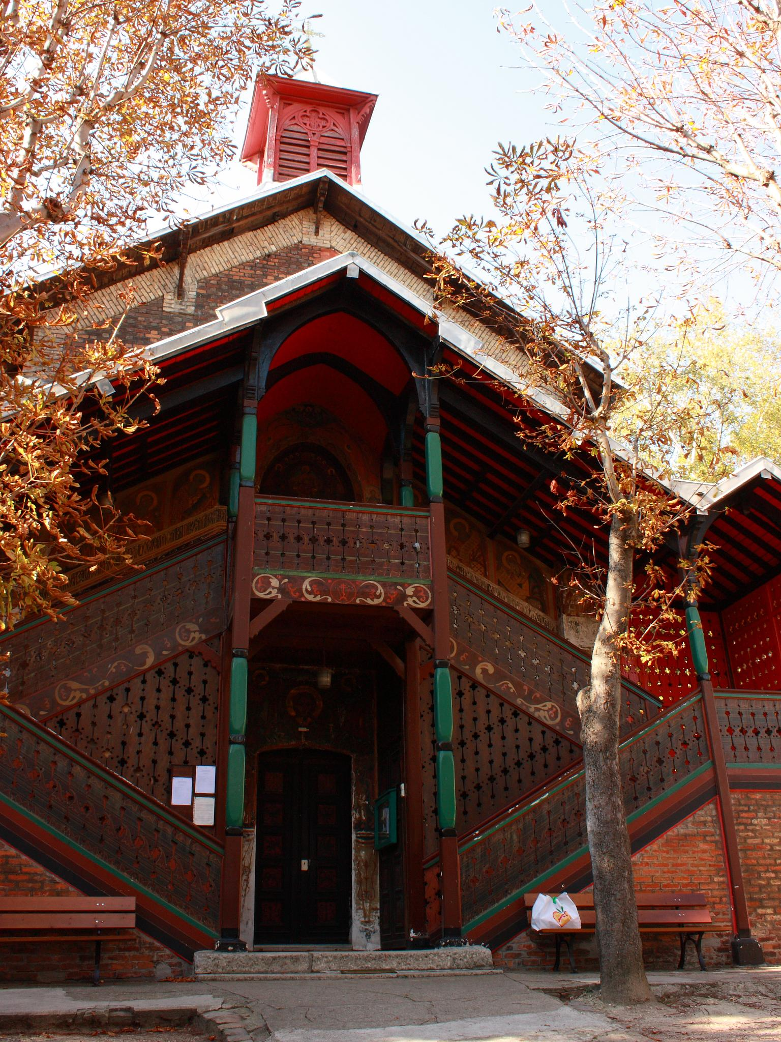 St. Serge Orthodox church in Paris